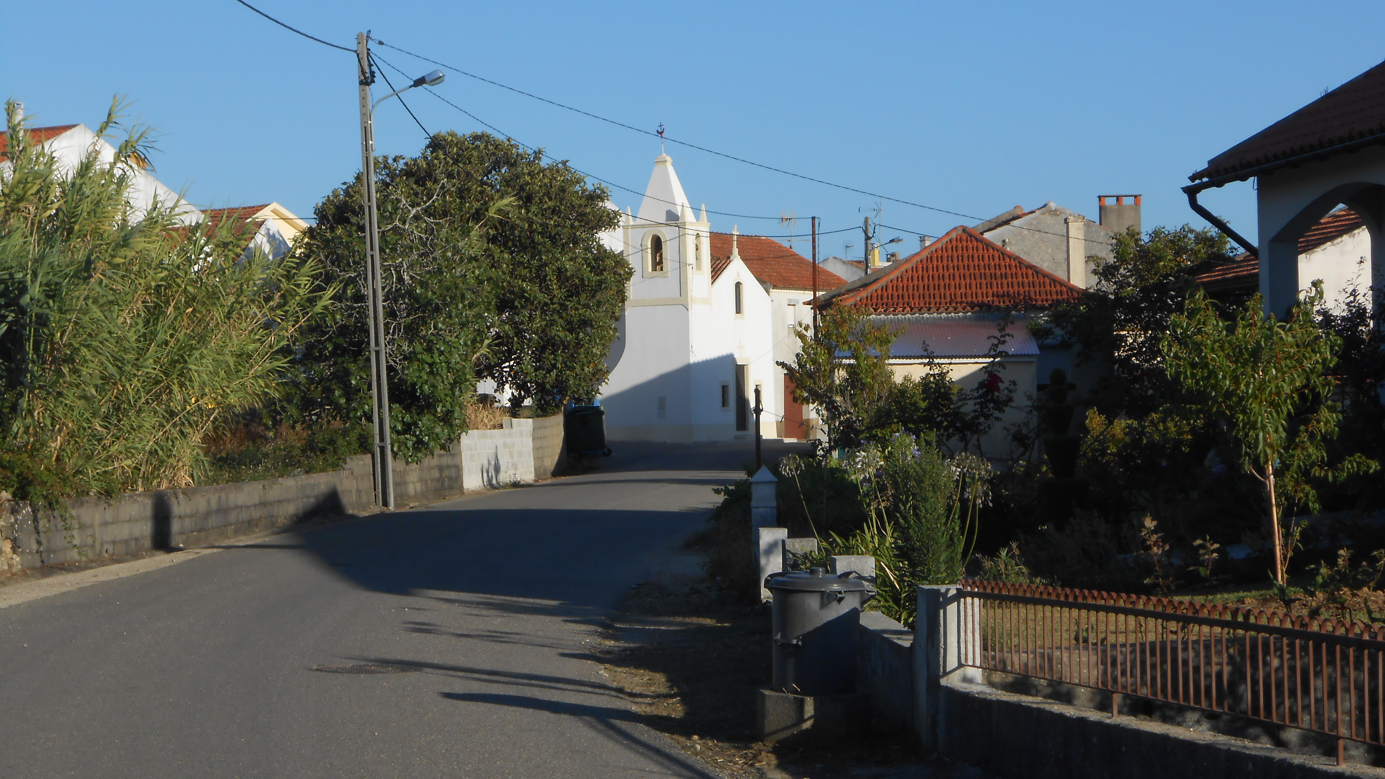 Parcial view of the village of Carvalhal da Azoia, in the Samuel parish, Soure, Portugal.